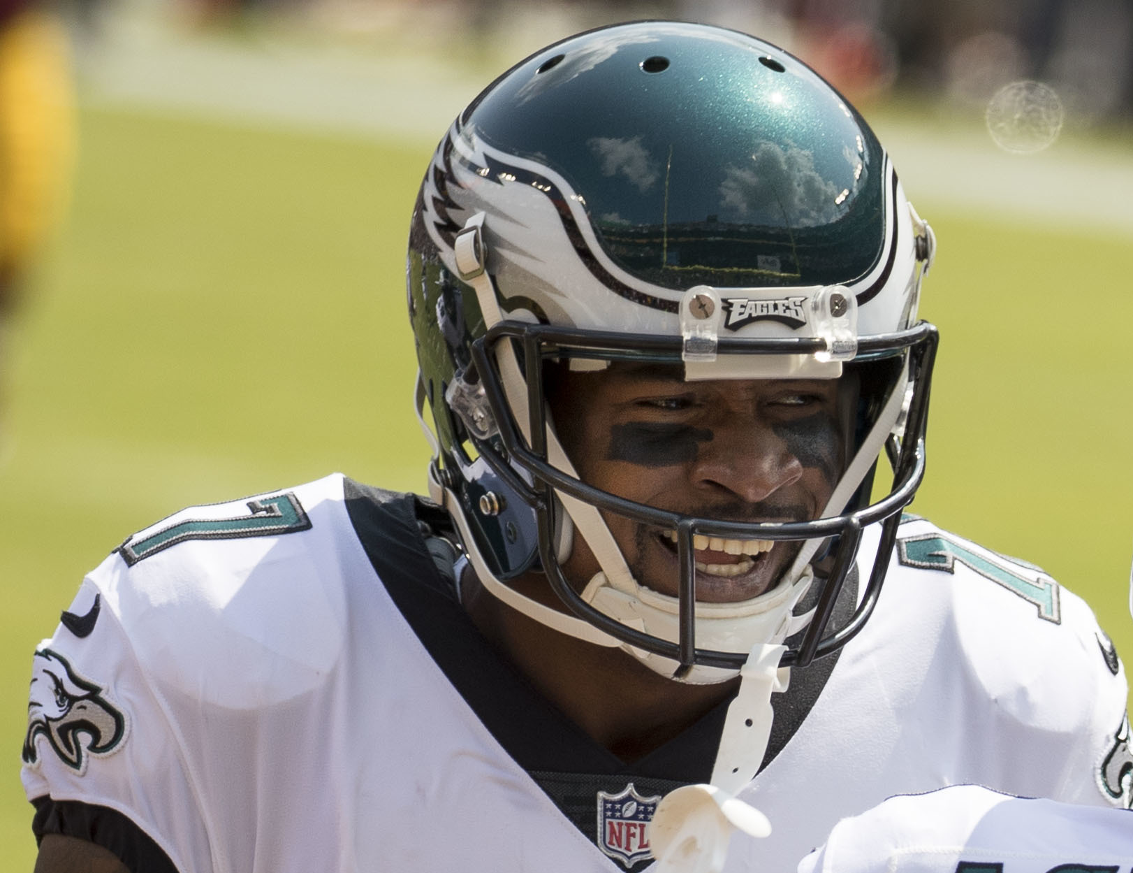 Philadelphia Eagles wide receiver, Alson Jeffrey, during a game against the Washington Redskins on September 10, 2017.